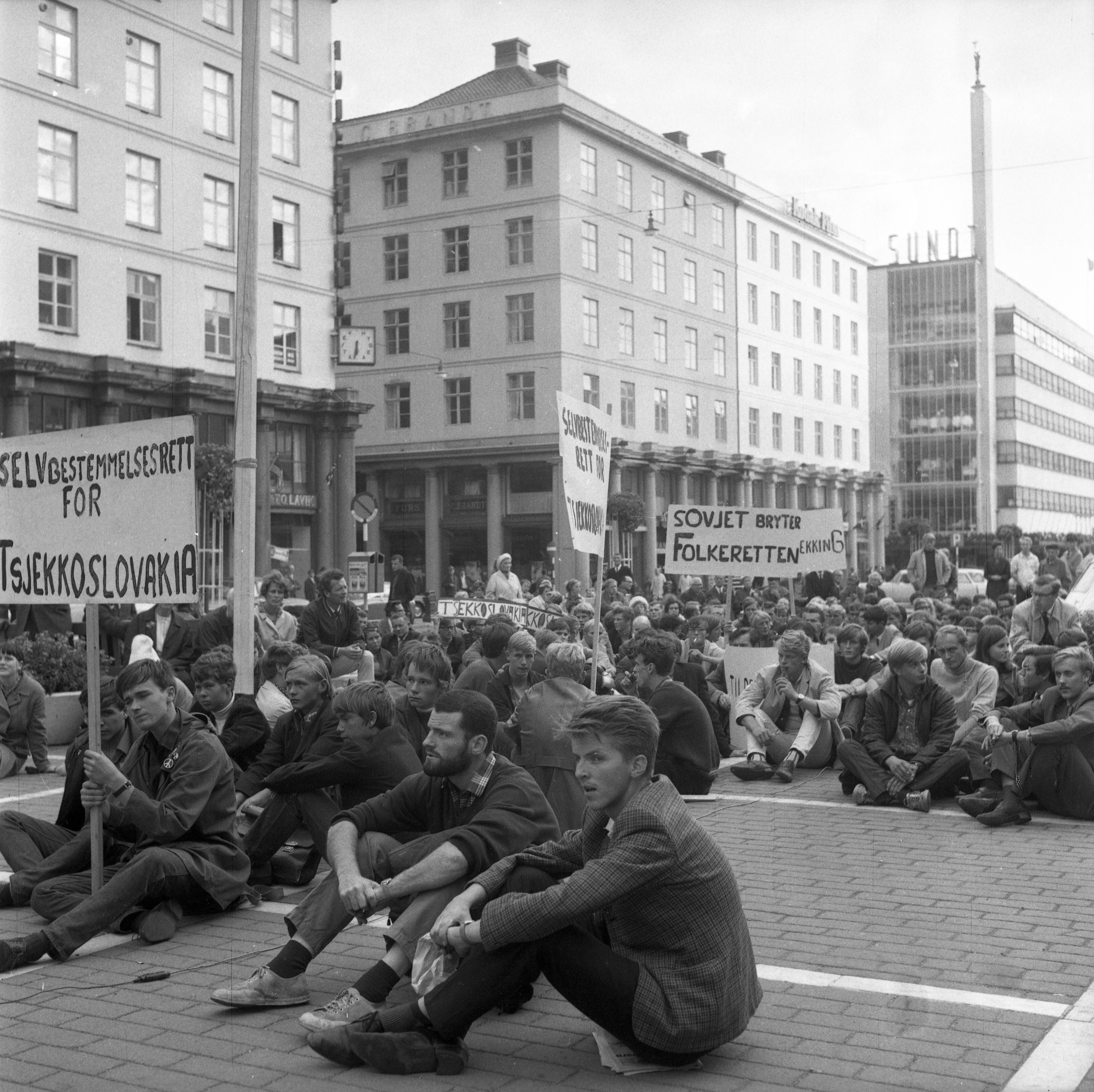 Format: Negativ 120 film Dato / Date: 1968 Fotograf / Photographer: Eirik Sundvor (1902 - 1992) Sted / Place: Bergen, Hordaland Wikipedia: Warszawapaktens invasjon av Tsjekkoslovakia Wikipedia: Sekstiåtterne Eier / Owner Institution: Trondheim byarkiv, The Municipal Archives of Trondheim Arkivreferanse / Archive reference: Tor.H43.Bxx.F18055